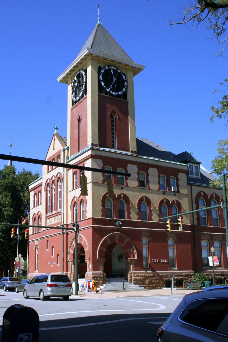 New Bern City Hall, North Carolina